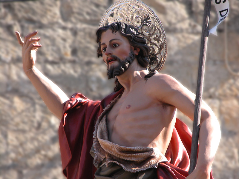 Claudio Vella Licensing Category:Statues of Baptisms Category:Statues of John the Baptist Category:Statues of Saint John